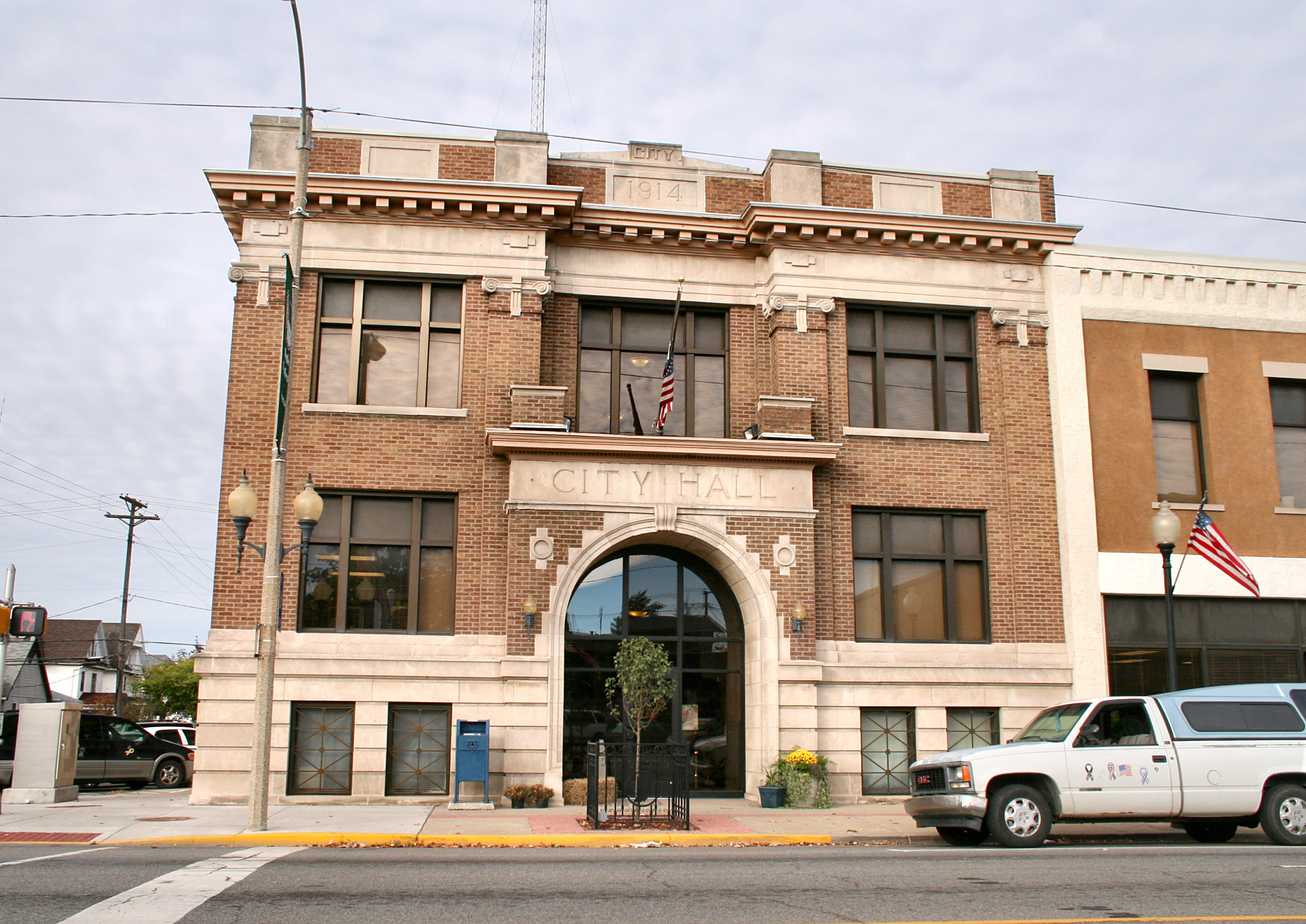 City Hall in Kendallville, Indiana. Photo shot by Derek Jensen (Tysto), 2005-October-17